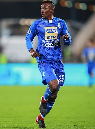 دیدار تیم های فوتبال استقلال تهران و سپیدرود رشت